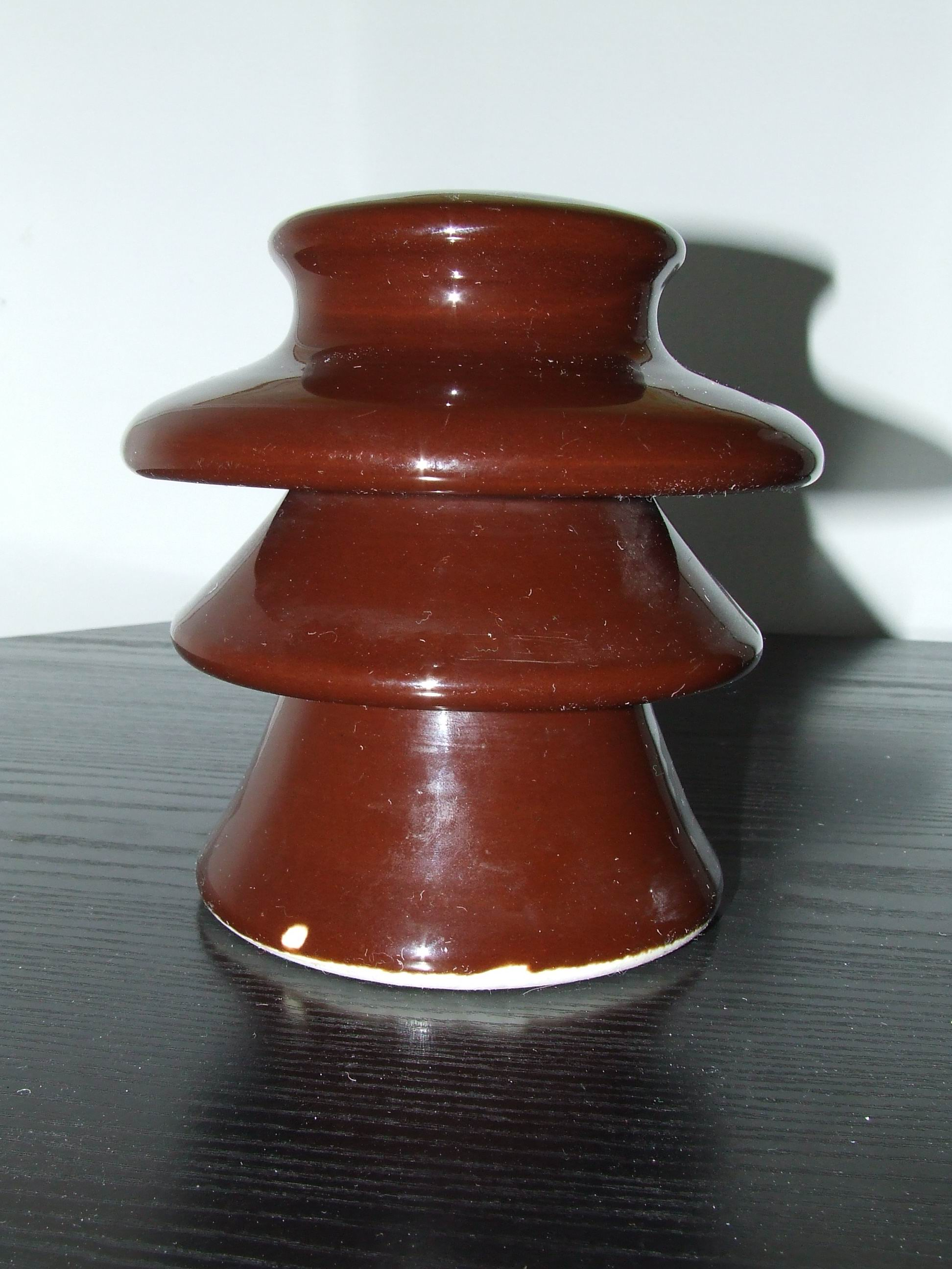 10 kV ceramic pin insulator. This is used for insulating electric power distribution lines where they are supported by utility poles. The insulator mounts on a pin sticking up from the crossarm of the pole. The power line is tied to the top. It is moulded in a series of concentric disk shapes to increase the surface distance (creep length) along the insulator from one end to the other, to reduce surface leakage currents and also reduce the chance of flashover arcs.